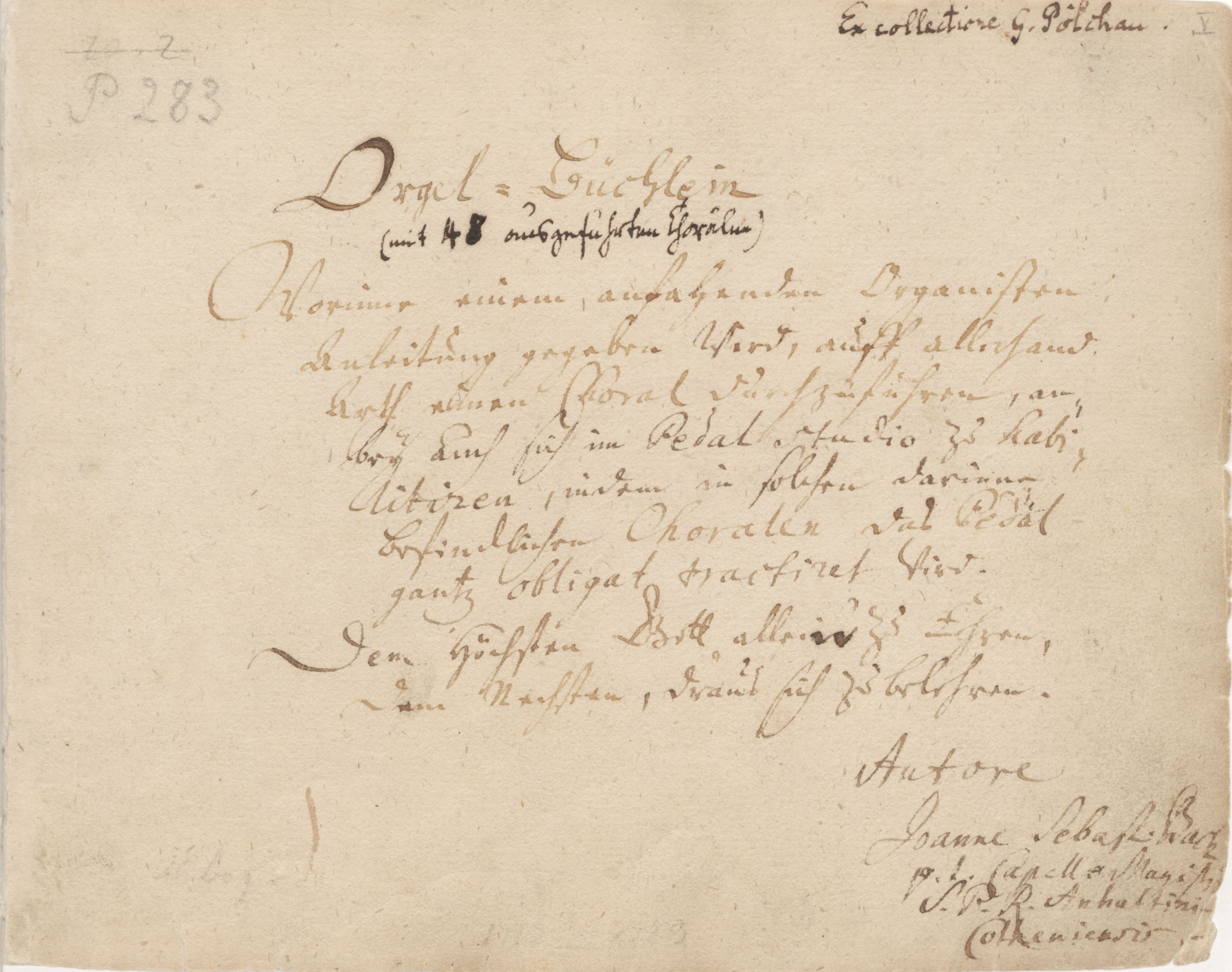 High resolution scanned image of title page of the orihinal manuscript of Bach's Orgelbuechlein